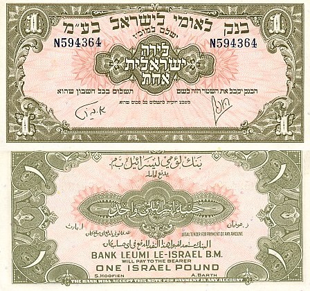 Obverse & Reverse side of a 1 Israel Pound bill, paper.